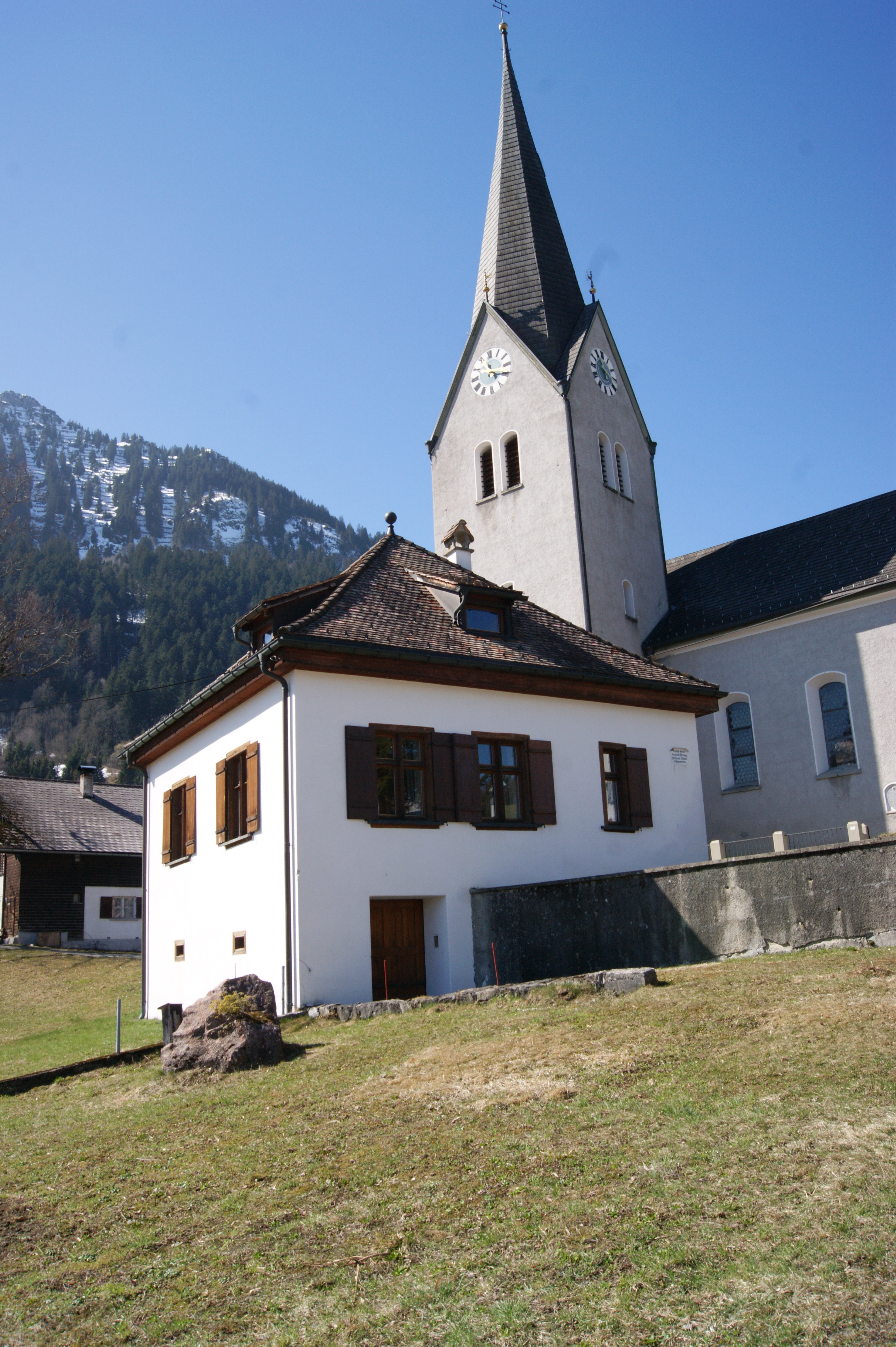 Former elementary school in Gurtis (Nenzing, Vorarlberg, Austria). Also called "Kaplanei". Today clubhouse. Built 1834-1839. Heritage property.